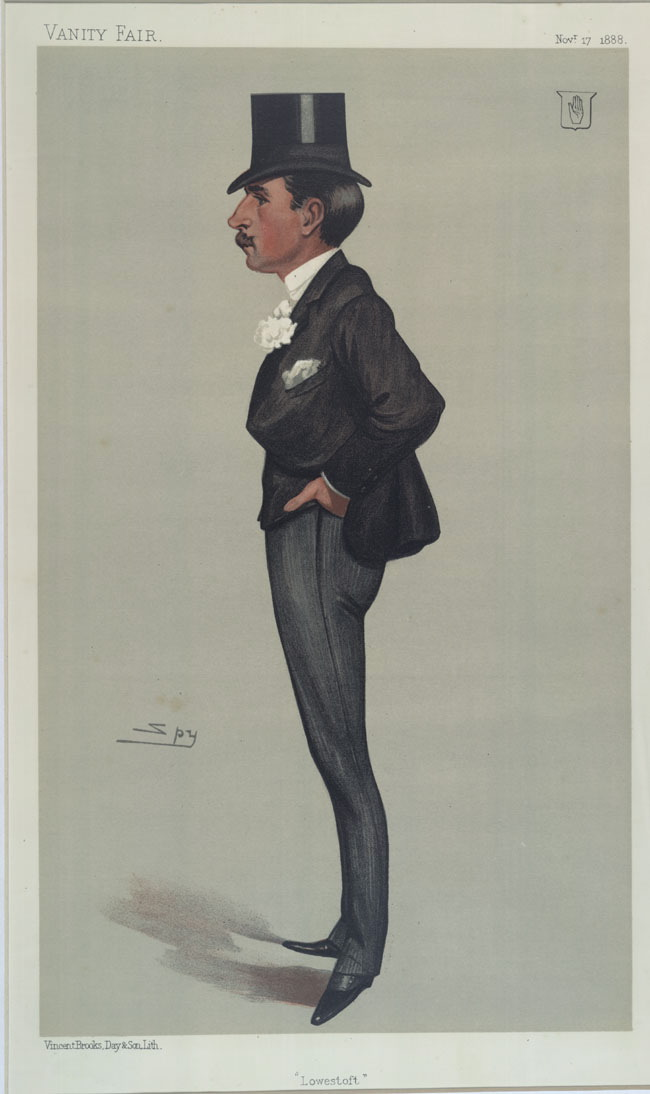 Statesmen No.553: Caricature of Sir SB Crossley MP. Caption reads: "Lowestoft"